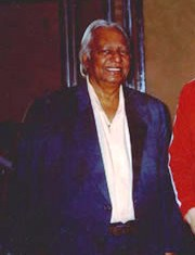 Ram Narayan at Symphony Space, New York City